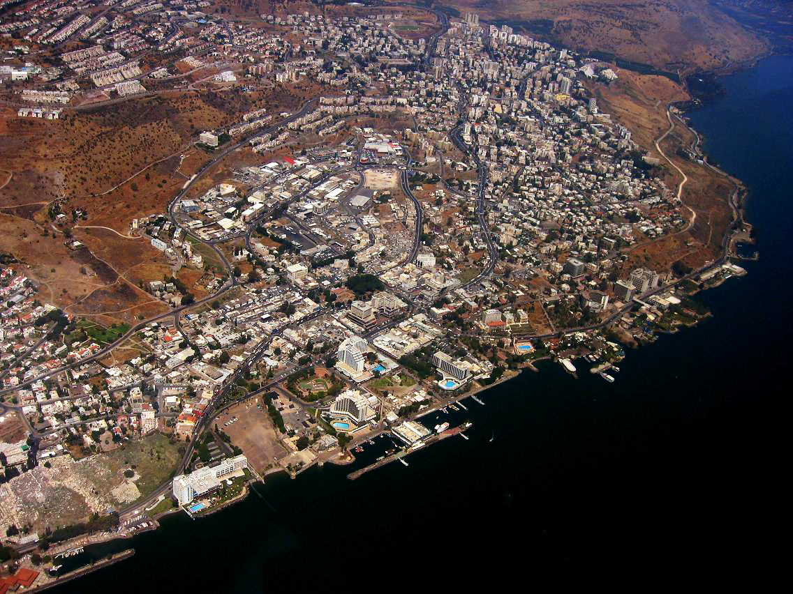 Tiberias (Israel) from the air.